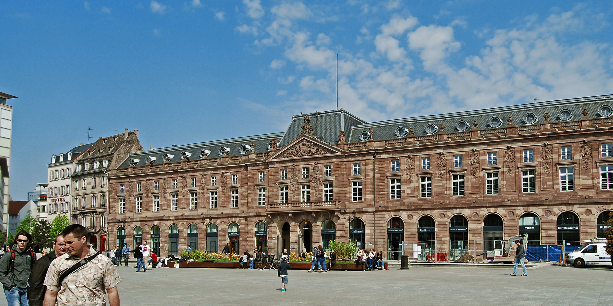 Aubette, Place Kléber, Strasbourg